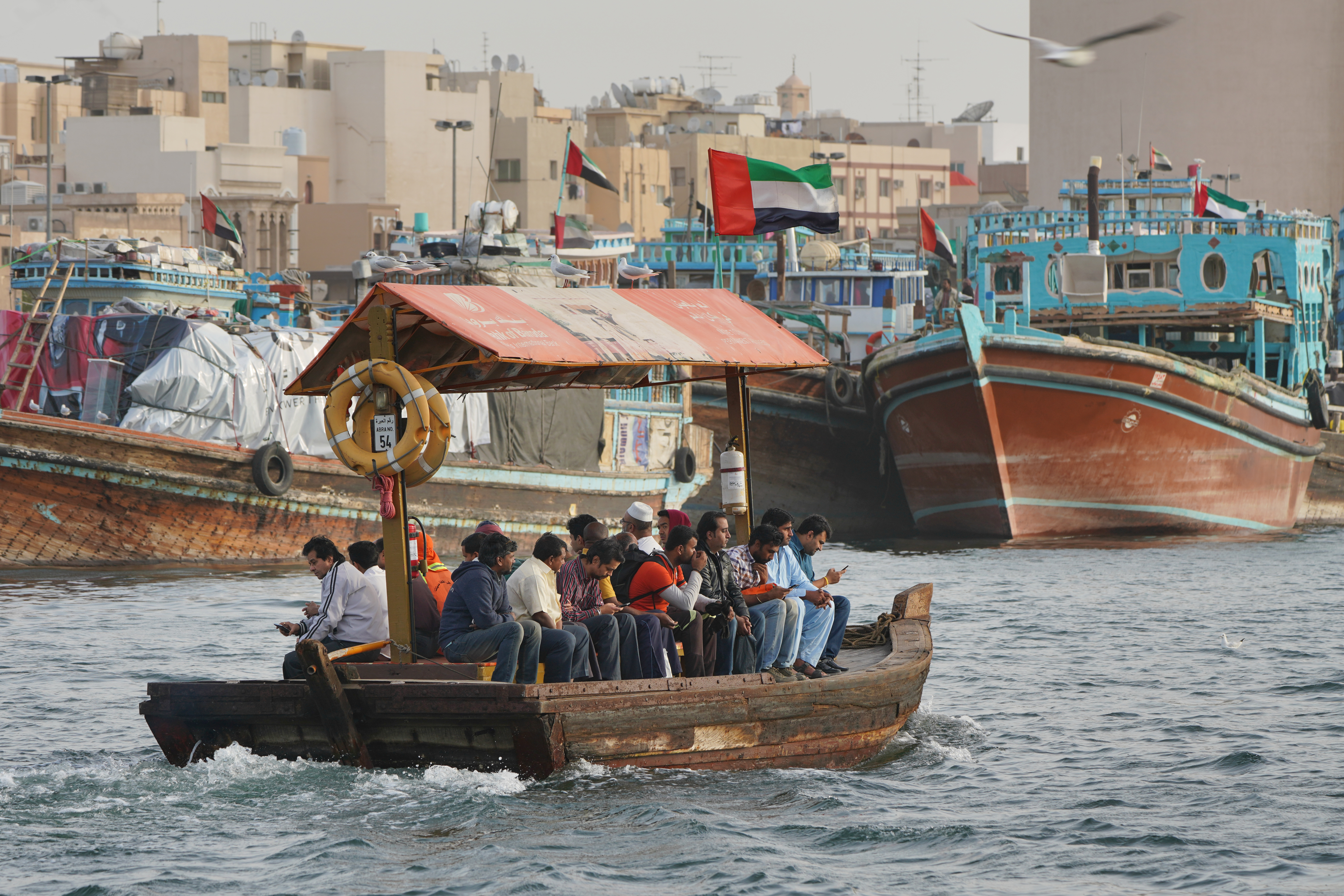 Abra on Dubai Creek in Dubai / United Arab Emirates